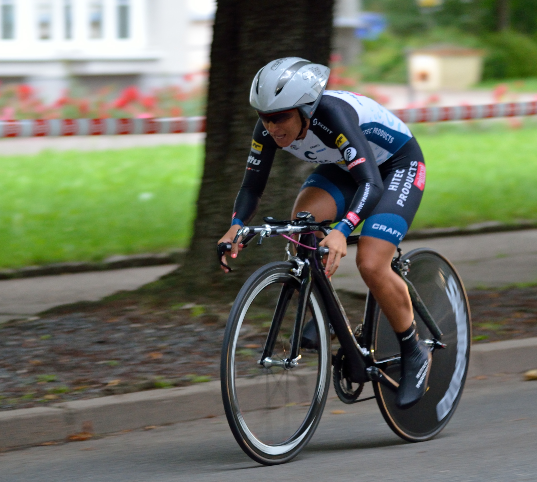 Sara Mustonen from the Hitec Products-Mistral Home Cycling Team during the Women's Tour of Thuringia 2012 in Zwickau, Germany.